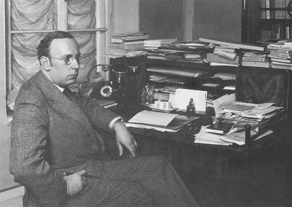 Otakar Štorch-Marien (1897-1974) was a Czech publisher, writer, poet and journalist.